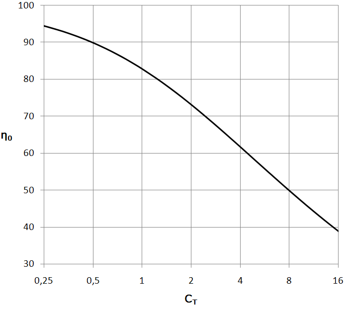 Ideal efficiency as function of propeller loading